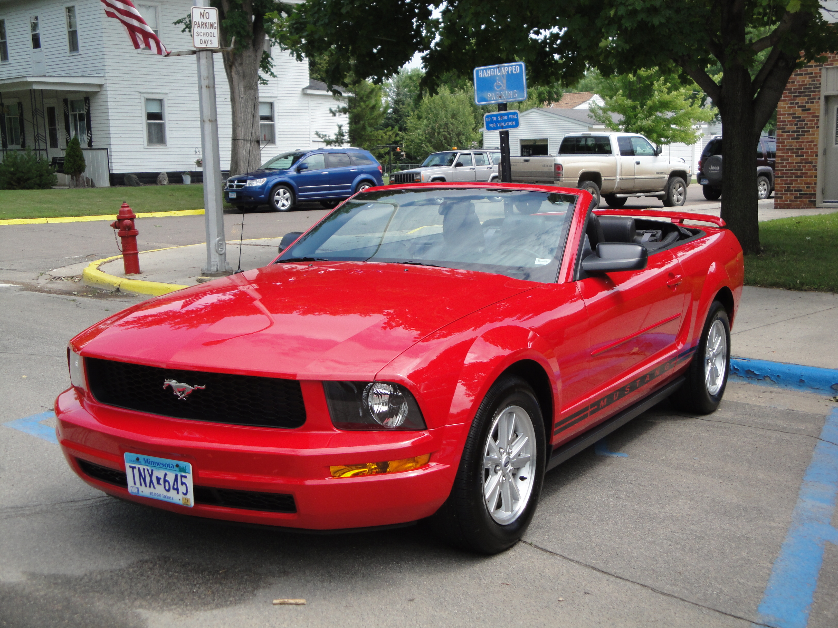 View On Black